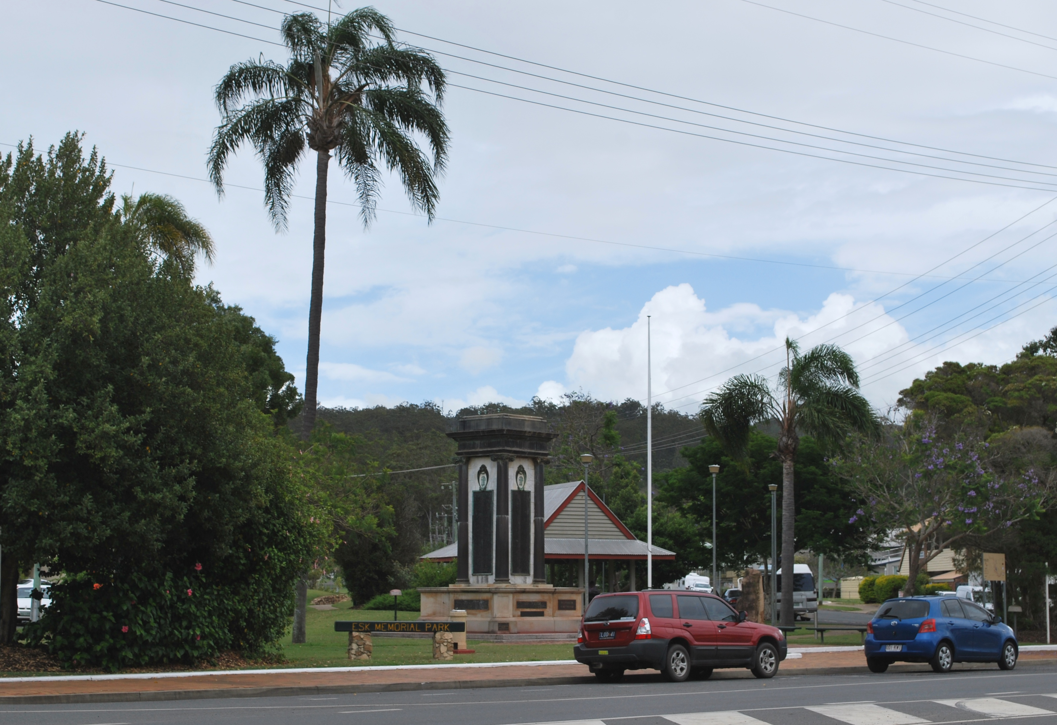 Memorial Park in Esk, Queensland